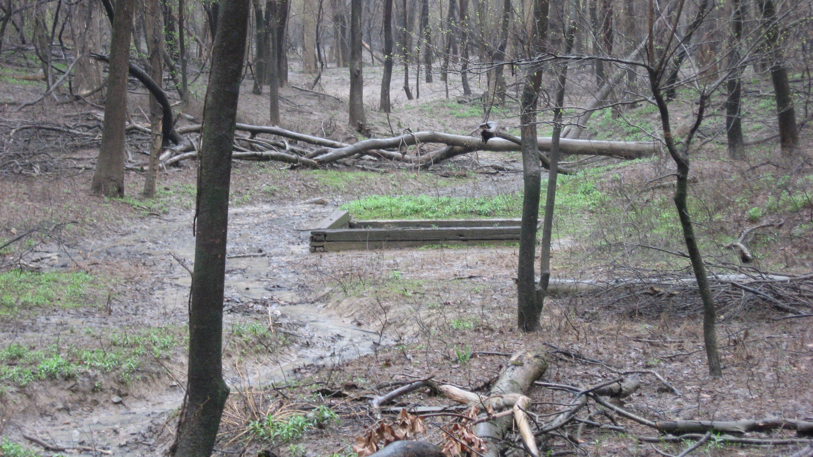 Overview of Nigger Spring, one of several salt springs comprising the Illinois Salines. Located off Salt Well Road west of Shawneetown in Equality Township, Gallatin County, Illinois, United States, the Illinois Salines were the only location where slavery was legal in pre-Civil War Illinois. Along with other springs in the Salines, this site is listed on the National Register of Historic Places.